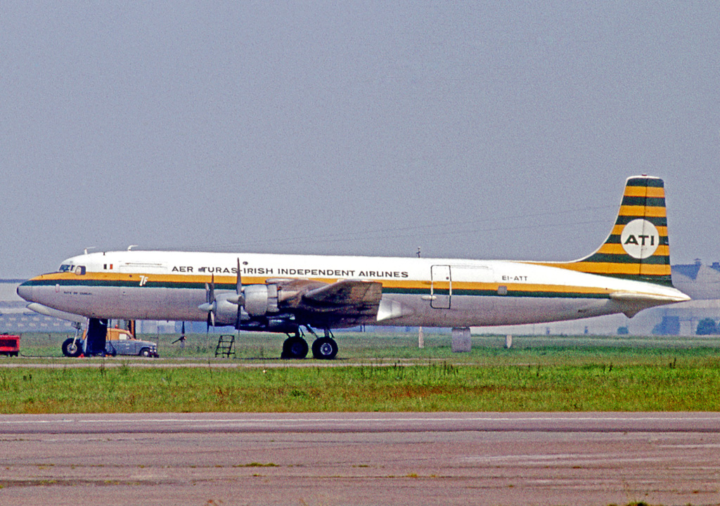 ouglas DC-7C Freighter EI-ATT of Aer Turas at Liverpool Airport in 1969